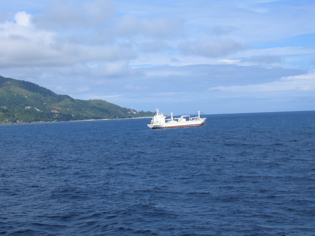 Reefer vessel MARSOPA - Port Victoria roads - Seychelles Islands IMO Number: 7809388 MMSI Number: 371582000 Callsign: 3EDI9 Length: 95 m Beam: 13 m